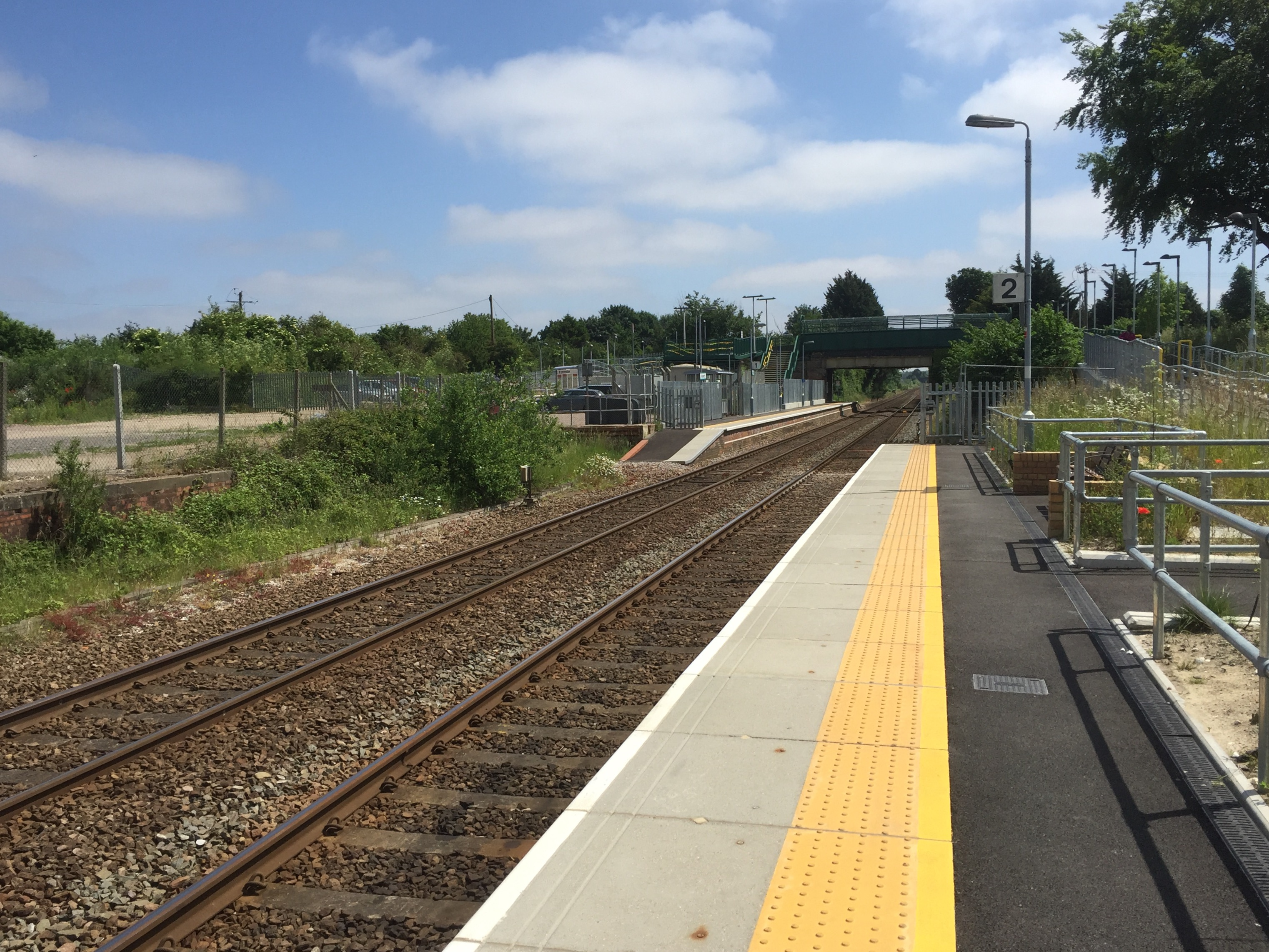 Photograph of Kennett Railway Station taken in June 2016